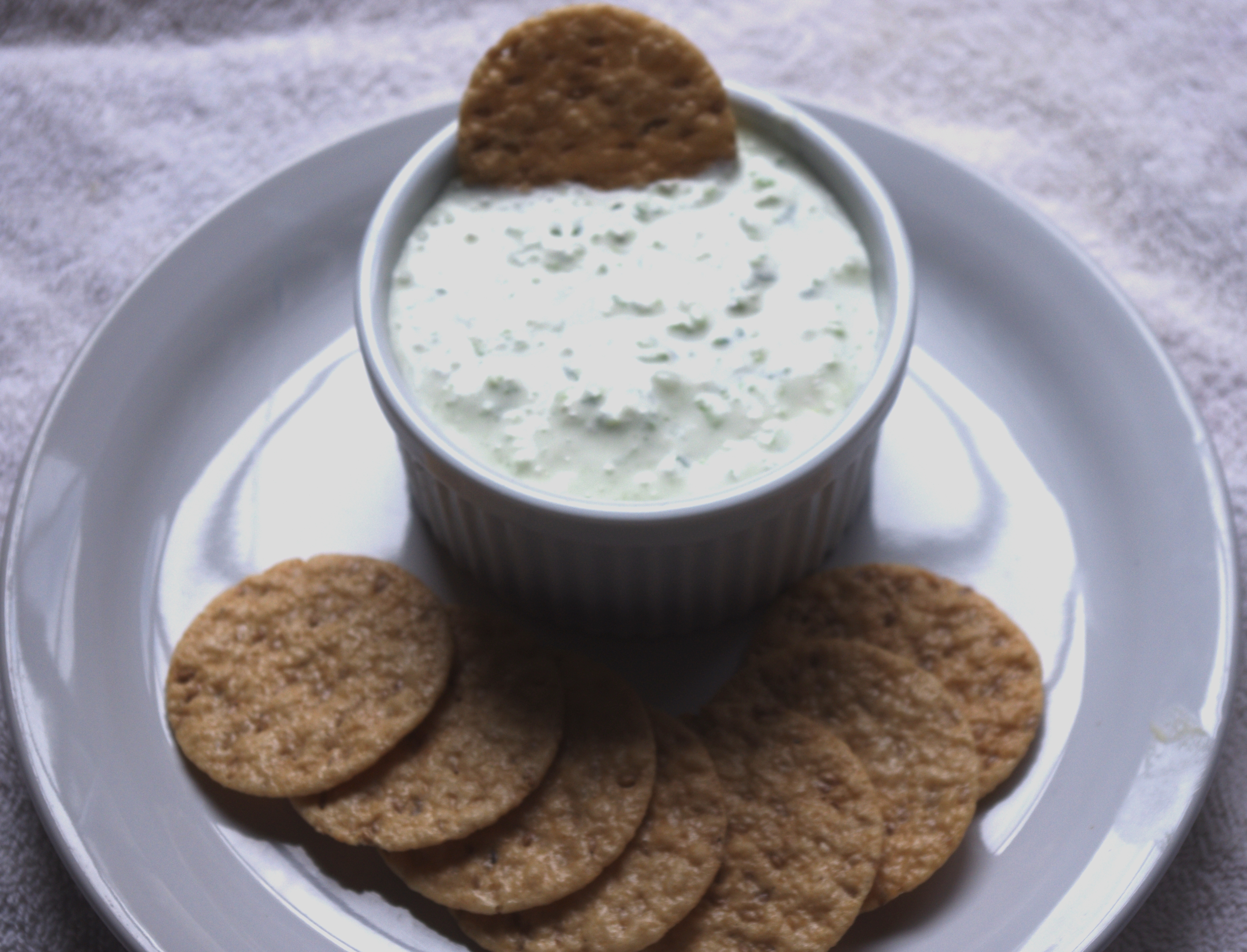 Benedictine or Benedictine Spread is a condiment made with cucumbers and cream cheese. It was invented around the turn of the 20th century by Jennie Carter Benedict, a caterer and restaurateur in Louisville, Kentucky, USA. Originally used for sandwiches, benedictine has in recent years been used as a dip for chips and filling for potatoes